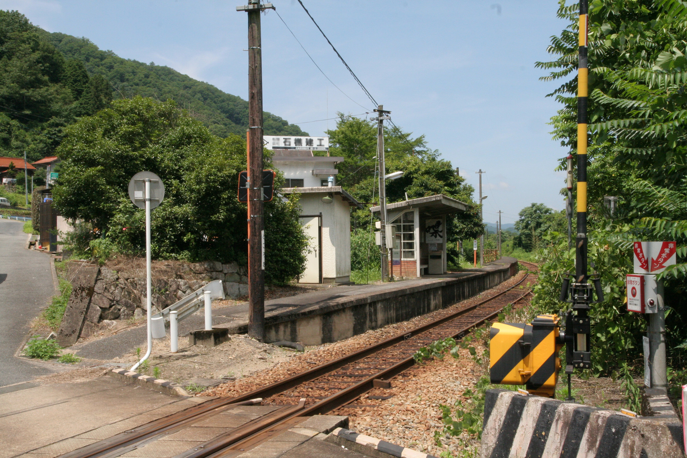 West Japan Railway Sankō Line tokorogi Station enclosure